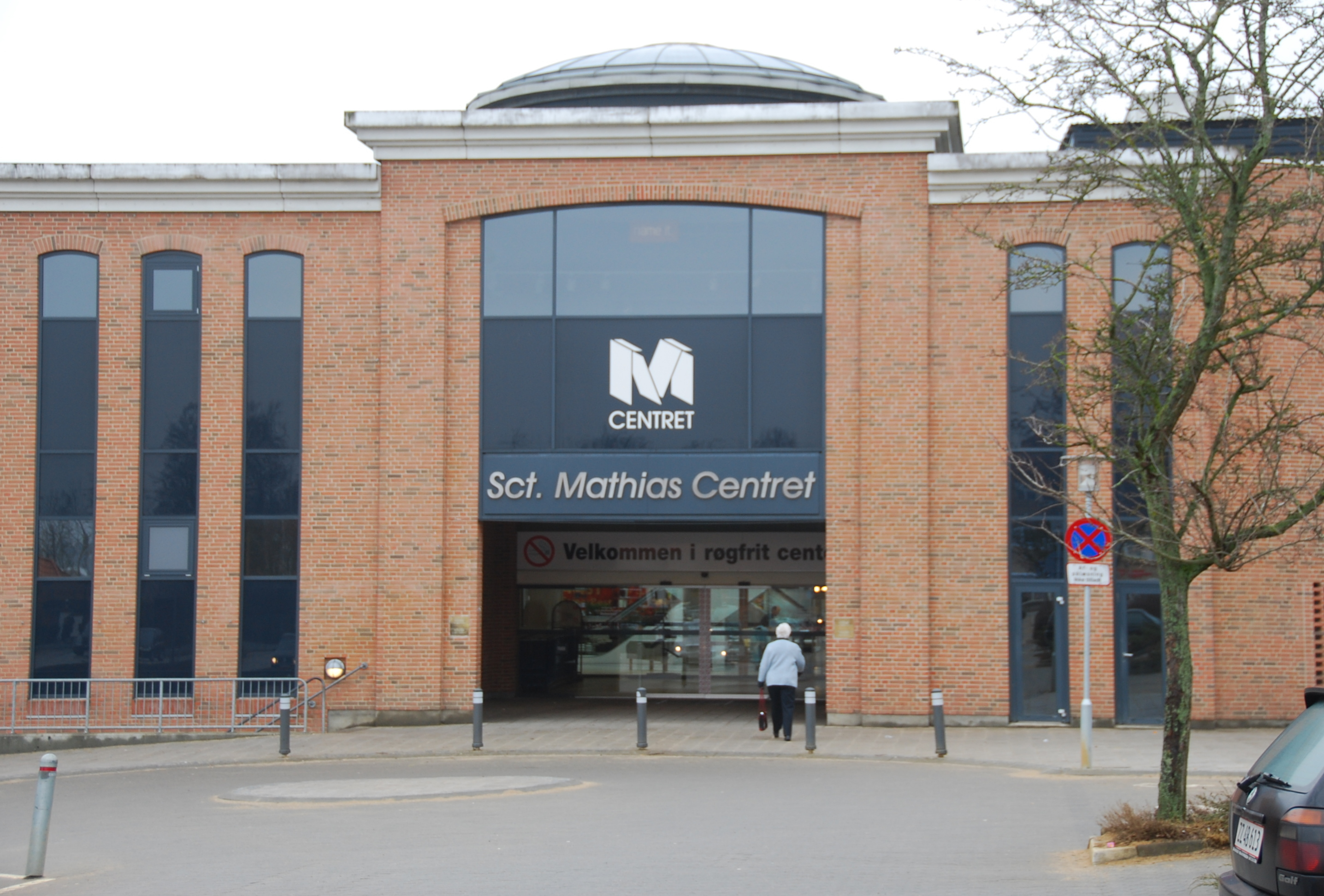 Sct. Mathias Centret, a shopping mall in Viborg